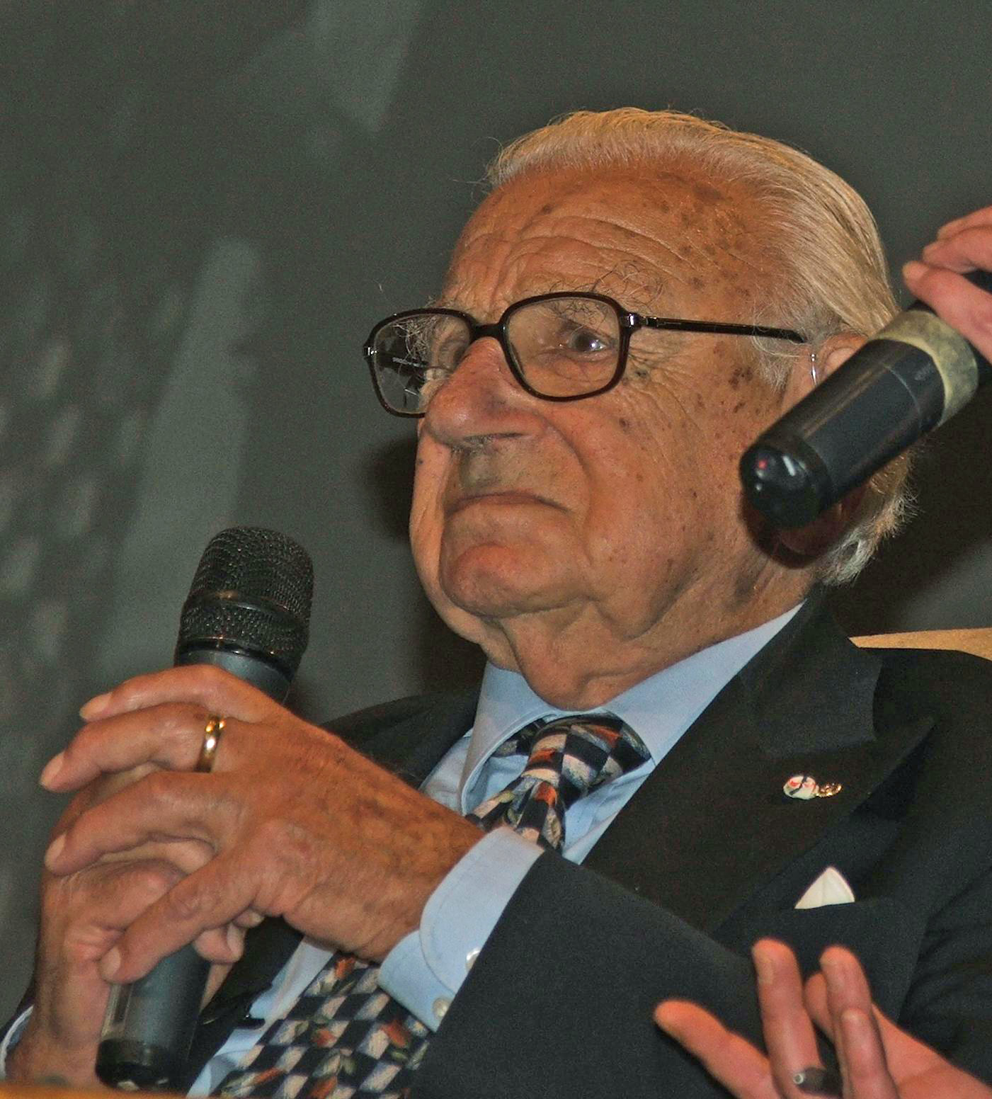 Sir Nicholas Winton - British humanitarian (b. 1909) who organized the rescue of about 669 mostly Jewish Czech children visiting Prague in October 2007.